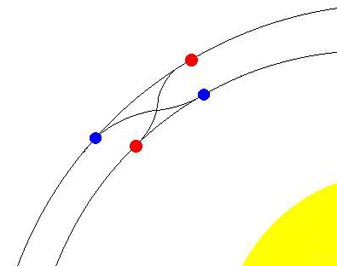 Orbital relationship between the two co-orbital moons of Saturn, Janus and Epimetheus.